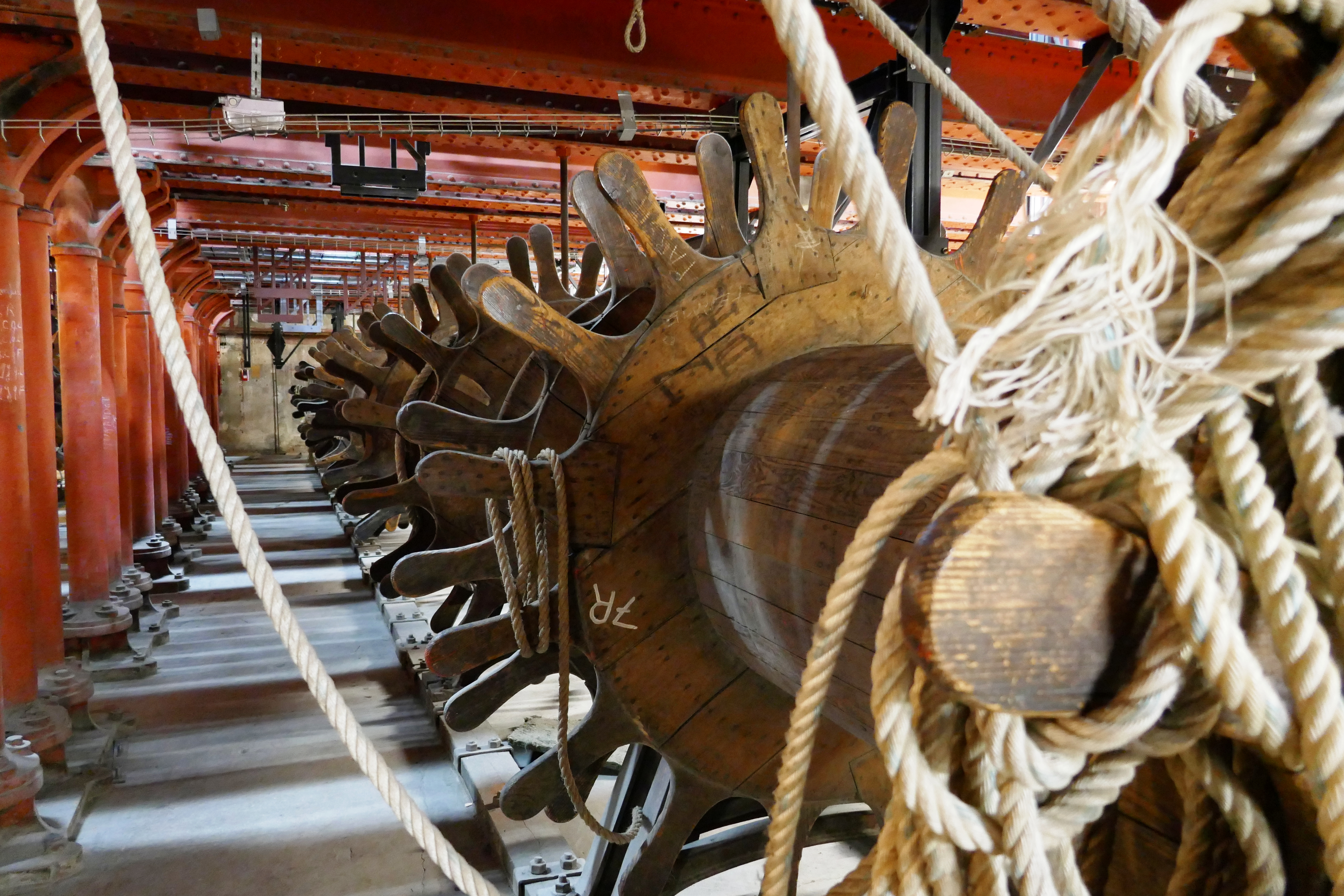 Opéra Garnier - Winch Room, under the scene (underground)